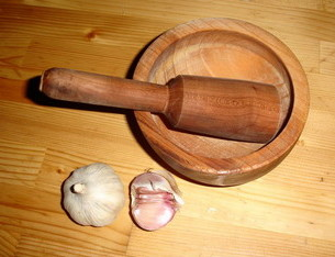 wooden mortar used to prepare Toum, Autor, Charbelgereige